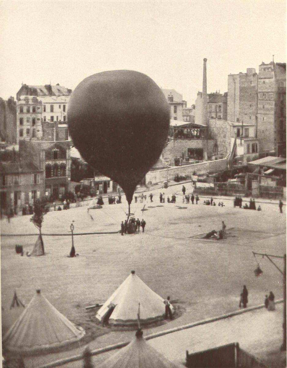 The Neptune, the first balloon used to carry mail during the Siege of Paris, being prepared for launching, 23 September 1870